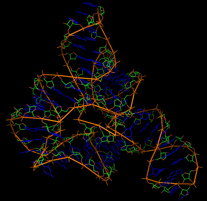 Structure of the SAM riboswitch, generated from the 2GIS PDB entry